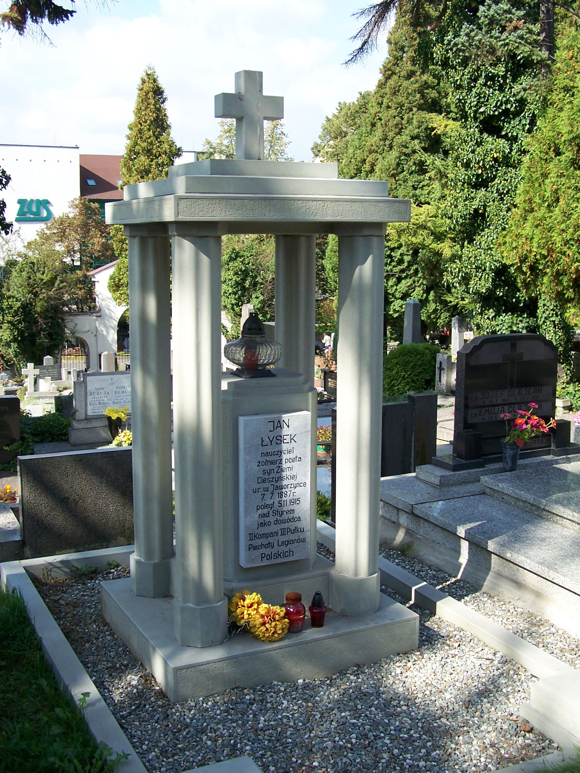 Grave of Jan Łysek, teacher, soldier, poet at the Protestant cemetery in Cieszyn, Poland